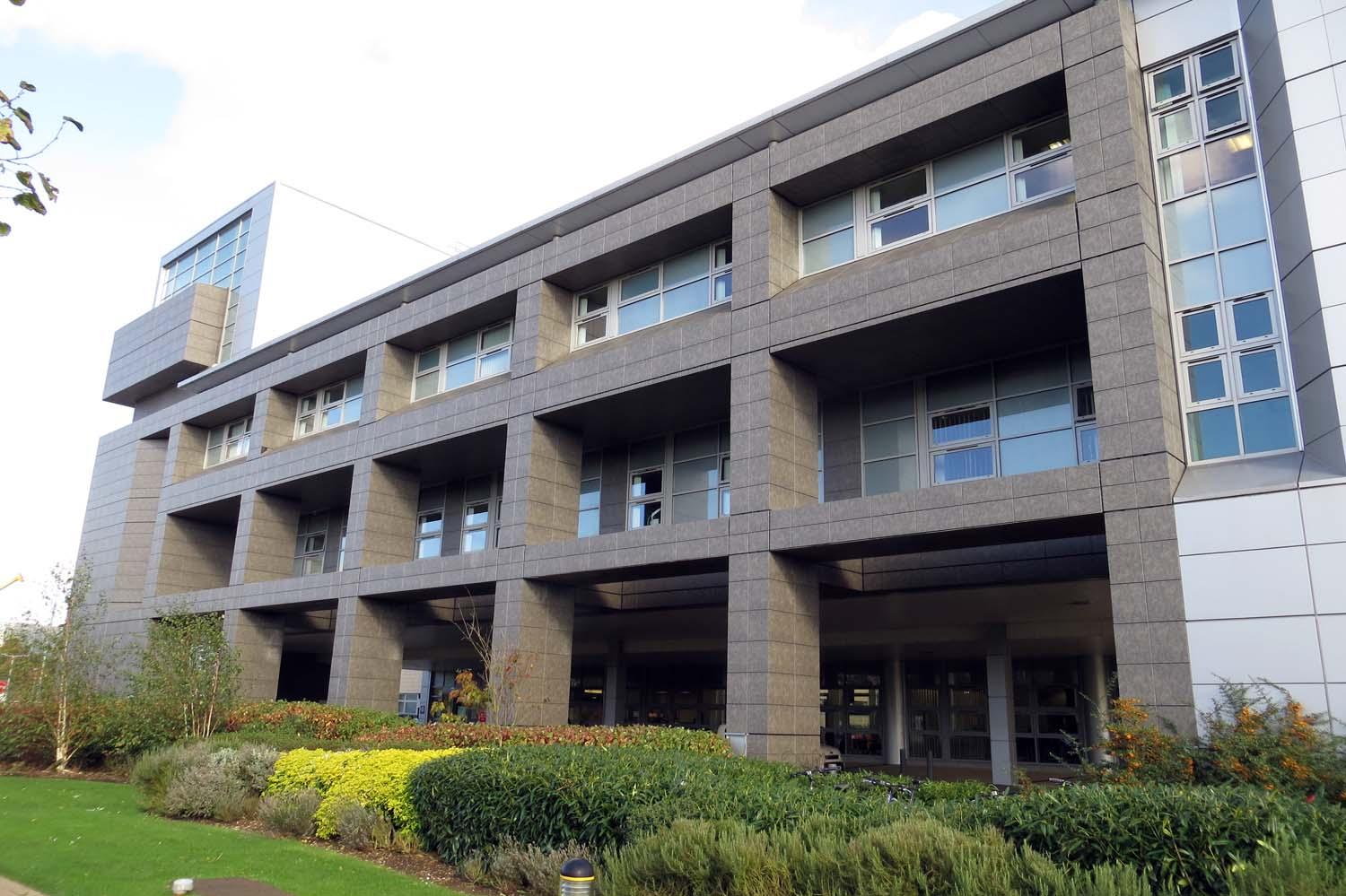 West front of the Churchill Hospital, New Headington, Oxford